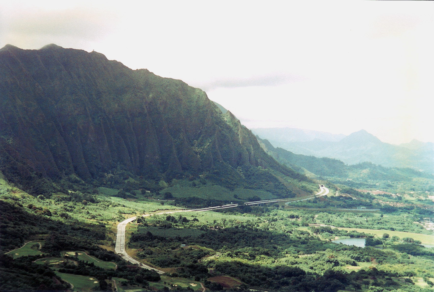 Cliffs of the Koolau Range as seen from the Nuuanu Pali Lookout, Oahu, Hawaii, USA